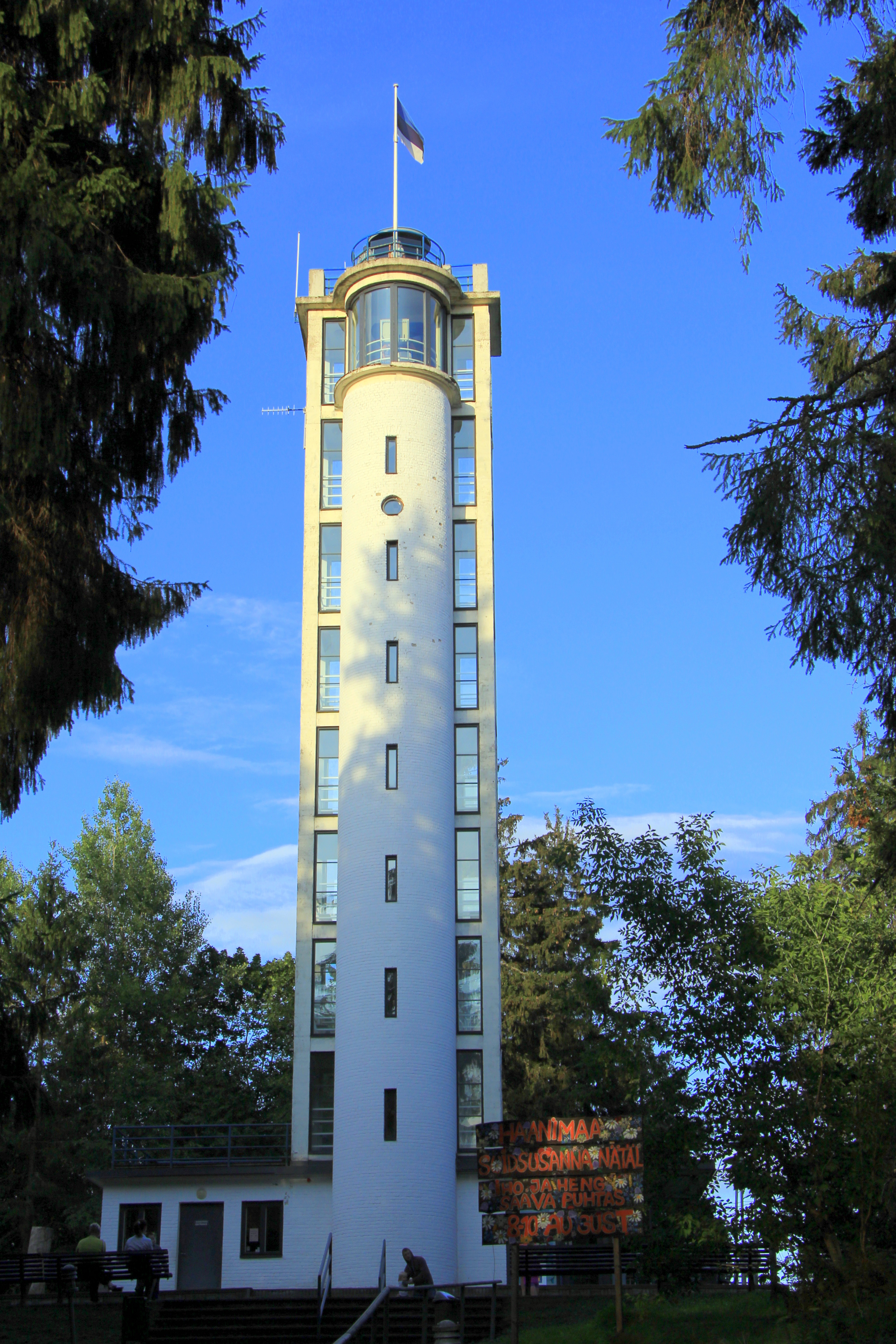 Suur Munamägi tower